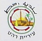 City logo of Rahat photographed by me